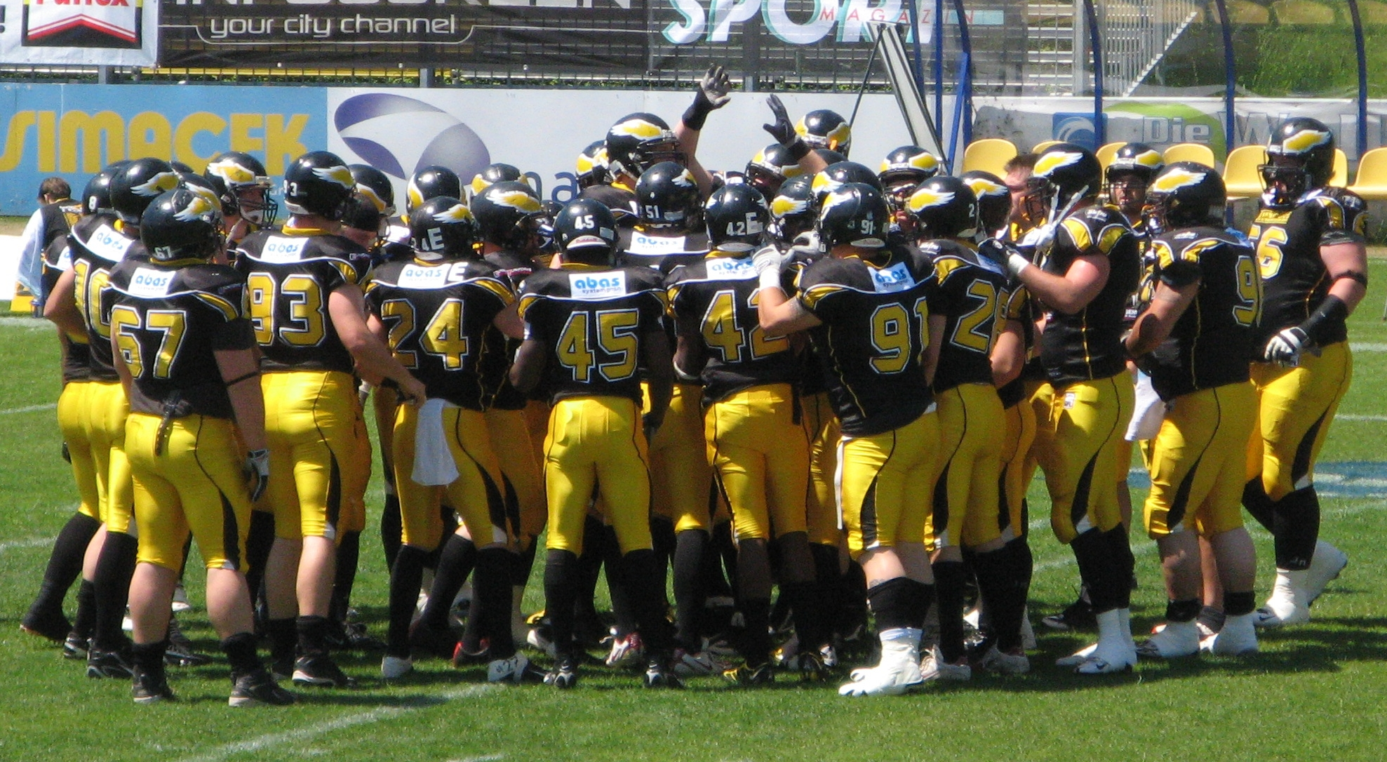 Eurobowl XXIV: Raiffeisen Vikings Vienna vs. Berlin Adler (31:34), @ Hohe Warte Stadium Vienna